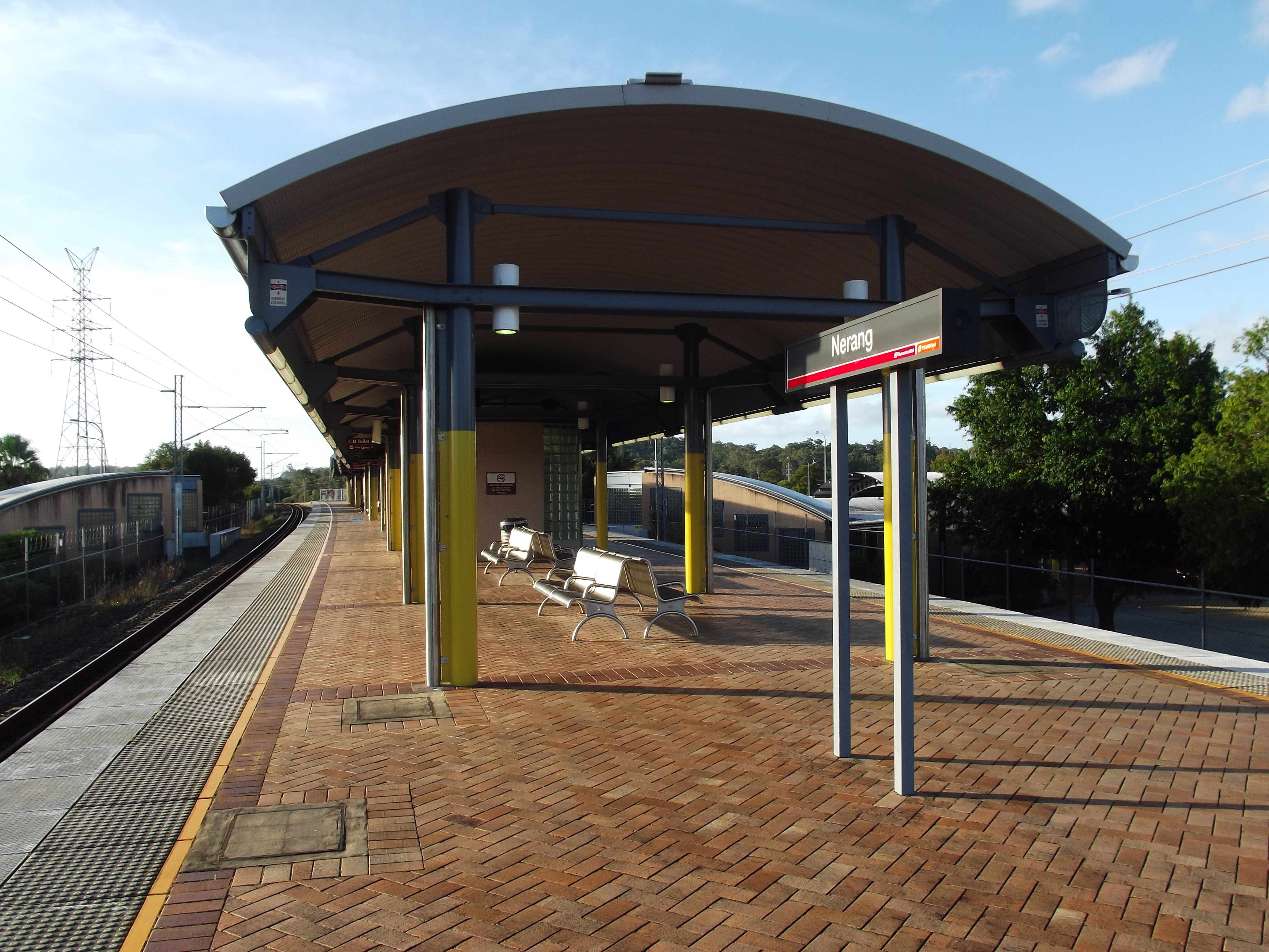 A photo of the Nerang railway station operated by TransLink, located in Gold Coast, Queensland.